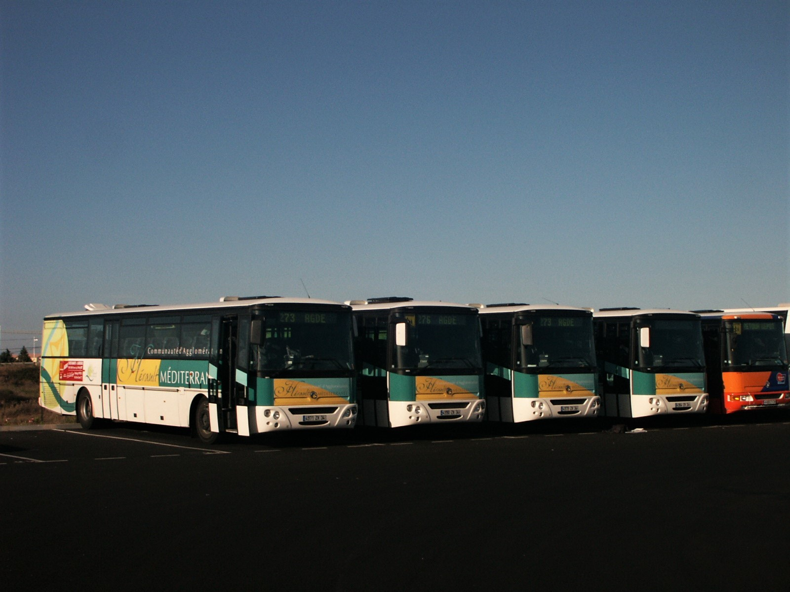 Few Irisbus Axer of the bus network of Hérault Méditerranée at the yard — in Agde, France — on June 13, 2006.